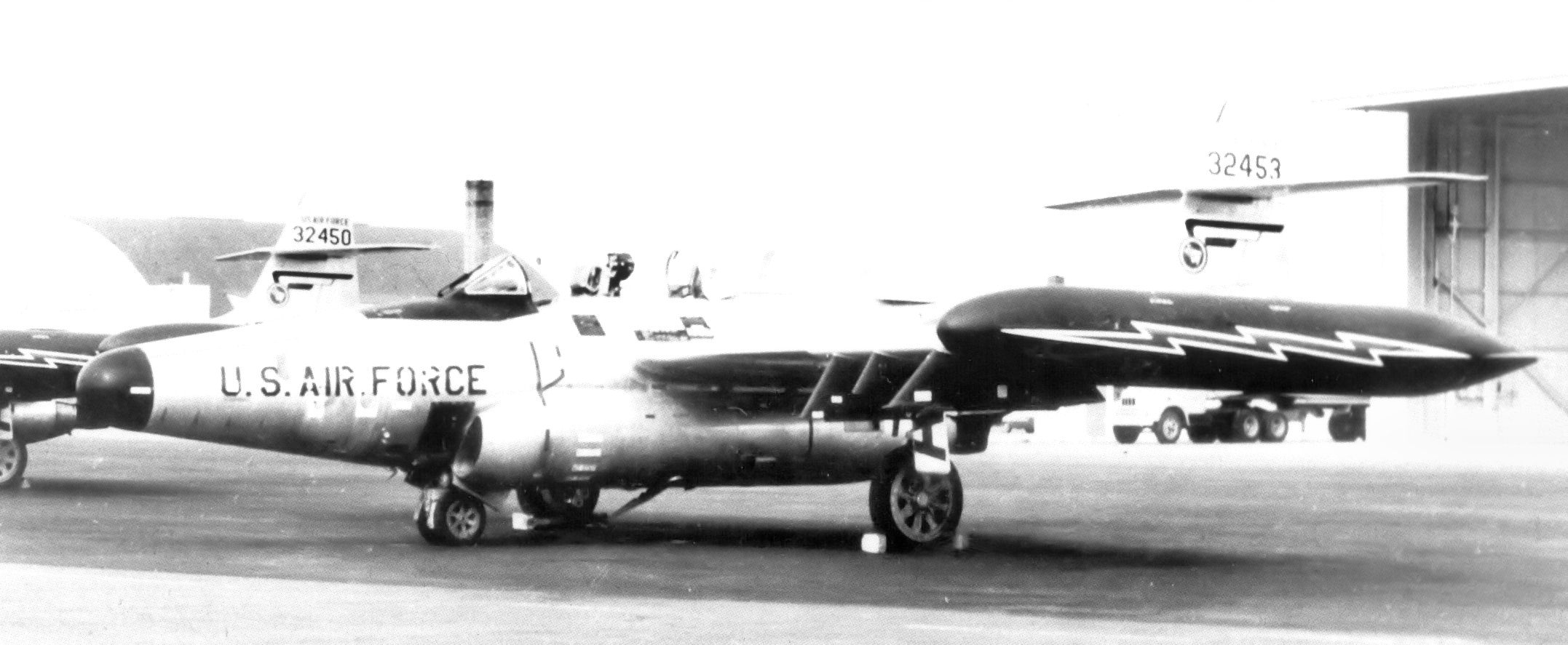 54th Fighter-Interceptor Squadron Northrop F-89J-50-NO Scorpion 53-2453 1957 Ellsworth AFB, South Dakota. Loading inert Genie nuclear missile at Tyndall AFB, Florida